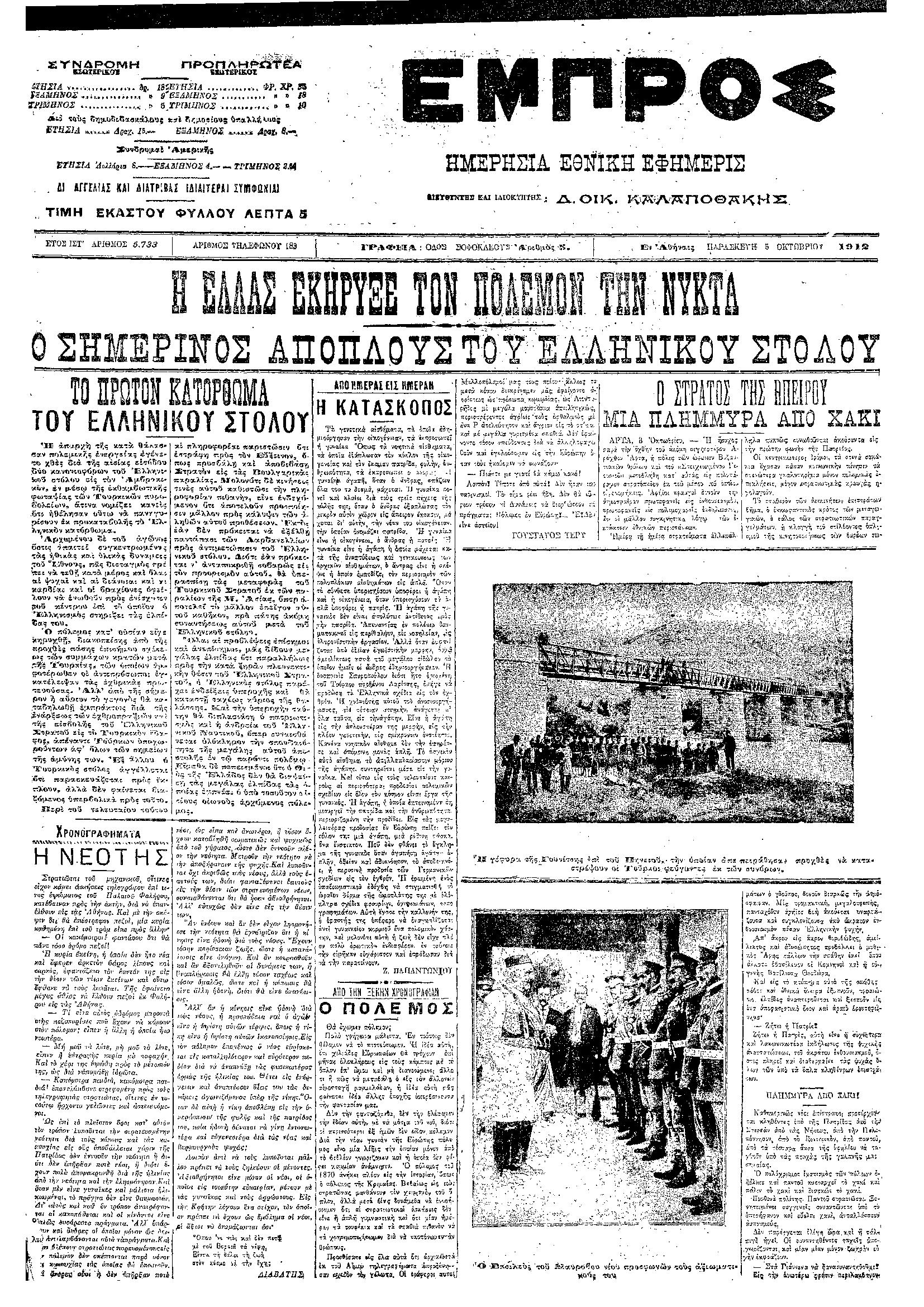 Greek cover of the Greek newspaper Empros annaouncing the beggining of the First Balkan War of 1912